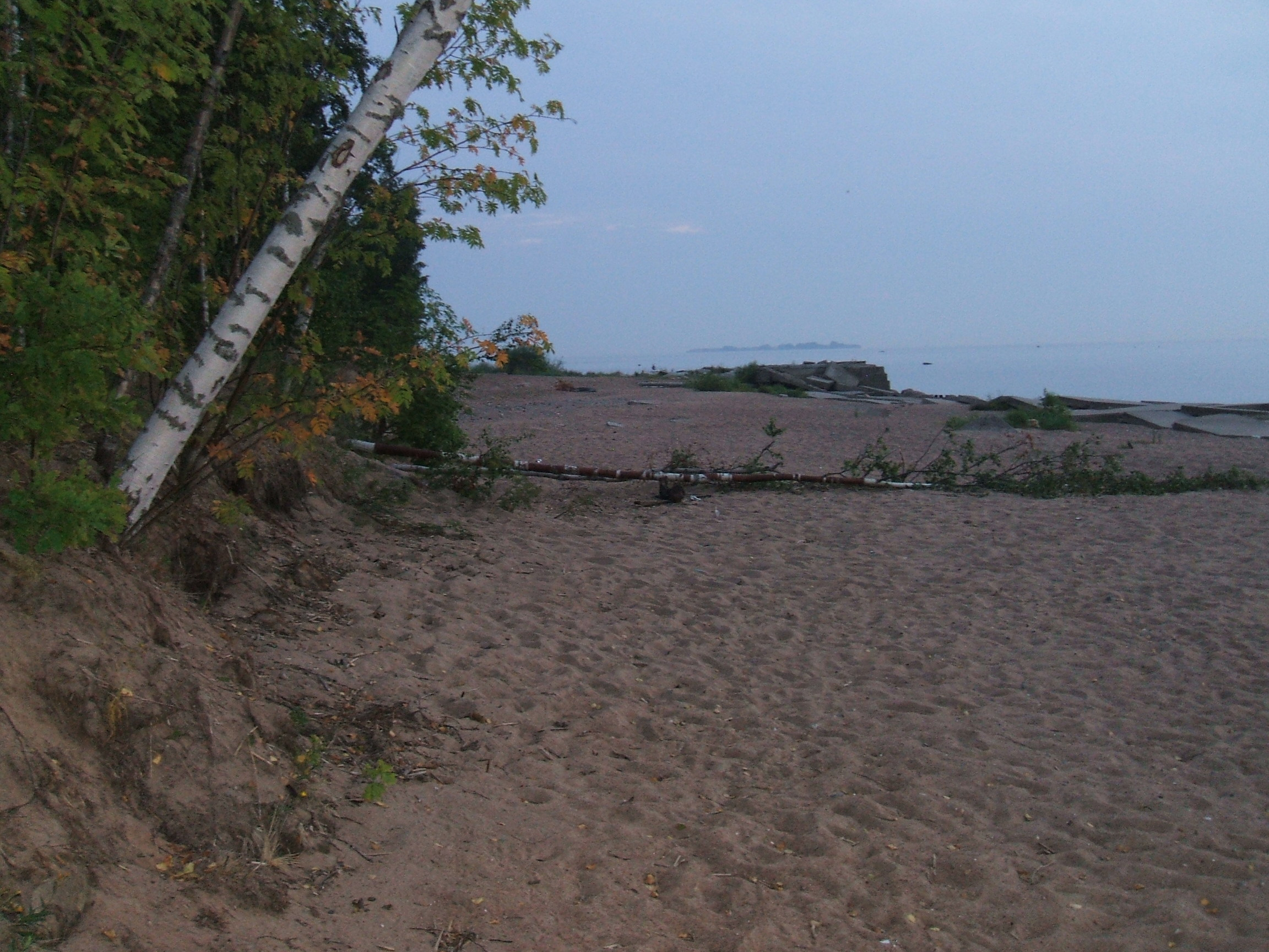 Erosion of Cape Dubovsky in the park "Dubky". Sestroretsk St.